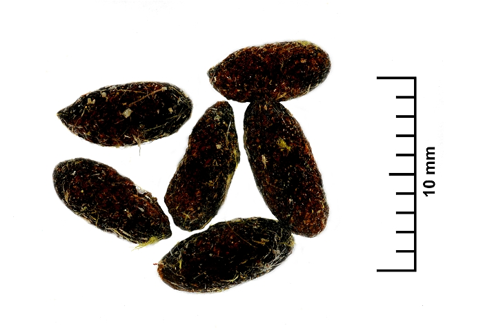 Feses of Octodon degus